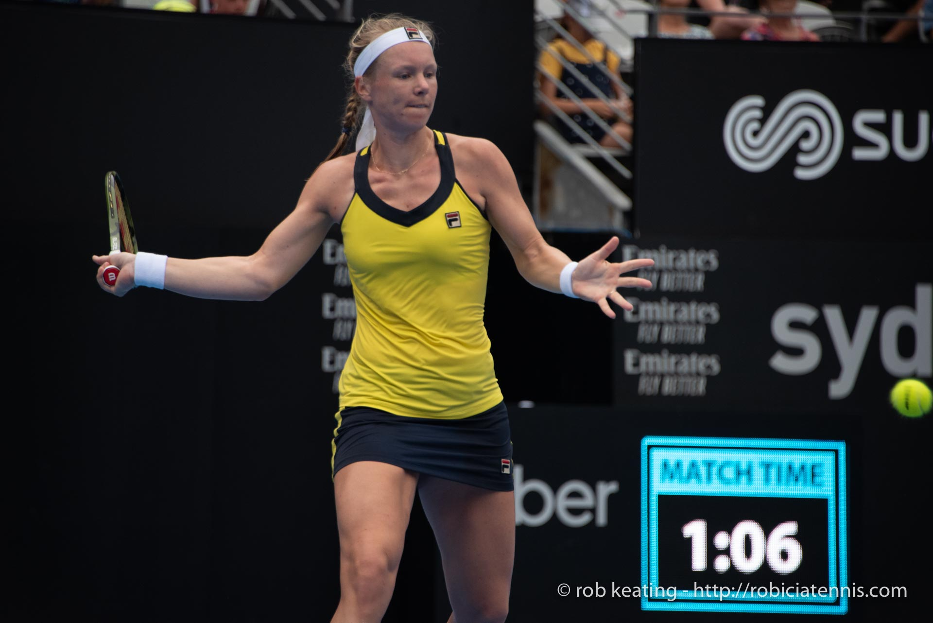 Sydney, Australia - 11 January 2019: Kiki Bertens hitting a forehand during the Sydney International singles semifinal match against Ashleigh Barty on Ken Rosewall Arena at Sydney Olympic Park. (Photo by Rob Keating/robiciatennis.com)